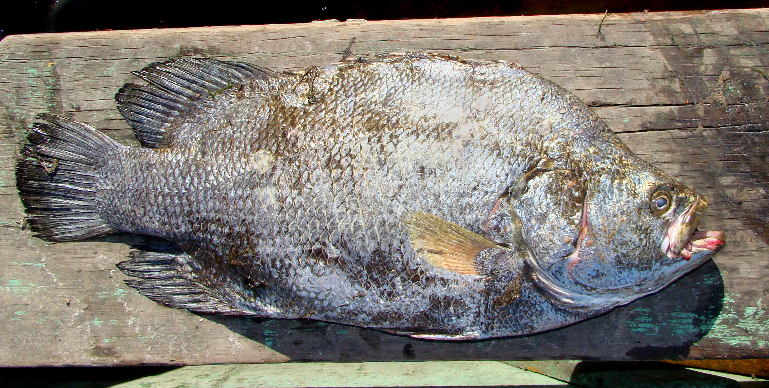 Lobotes surinamensis from the Patos Lagoon Estuary, Rio Grande do Sul, Brazil, photographed in February 2010.